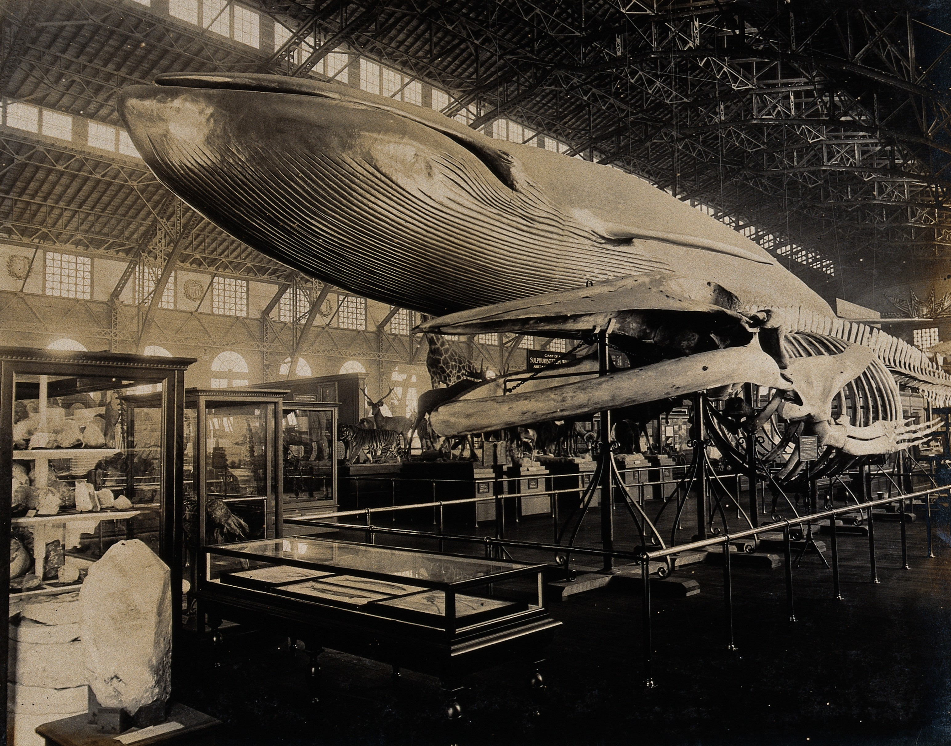 The 1904 World's Fair, St. Louis, Missouri: the US Government building: natural history exhibit featuring a blue whale skeleton and life-sized whale model Iconographic Collections Keywords: Natural; Balaenoptera; Museum; Exhibition; Animal; Missouri; Interior; America